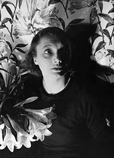 Actress Katharine Cornell (1893-1974) Katharine Cornell